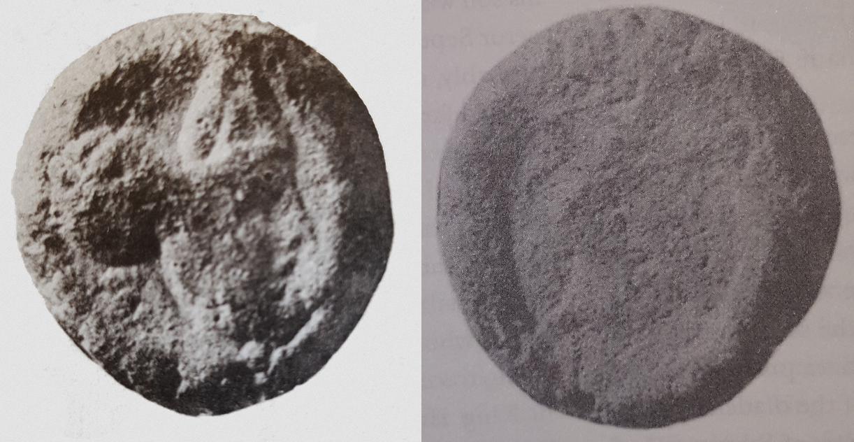 depiction of odaenathus and herodianus